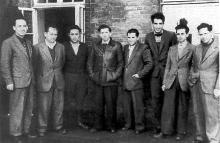 Members of the secretariat of the Exodus-1947 Pöppendorf and Emden DP camps